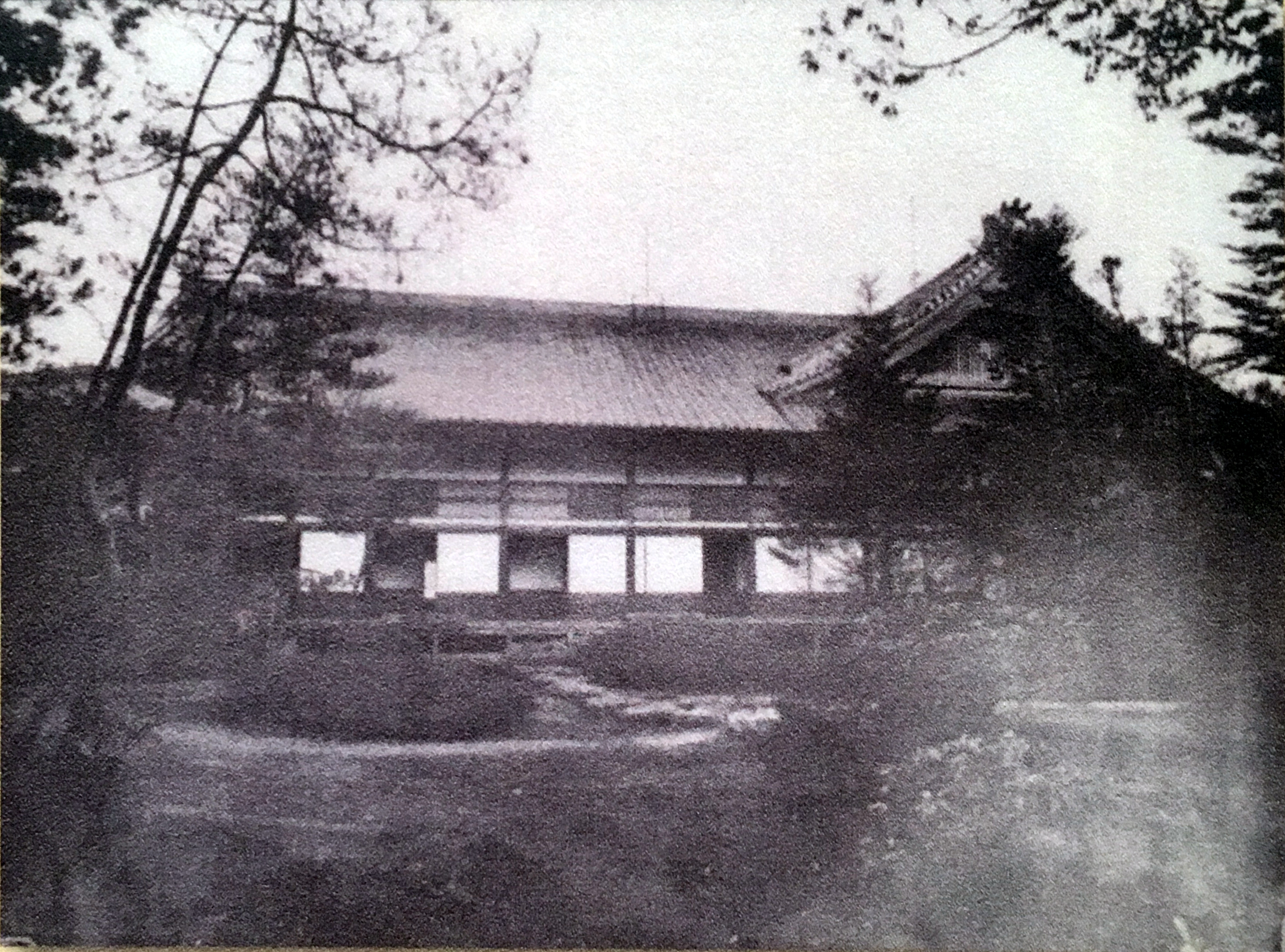 The Tokugawa residence in Ozone, Nagoya, central Japan.